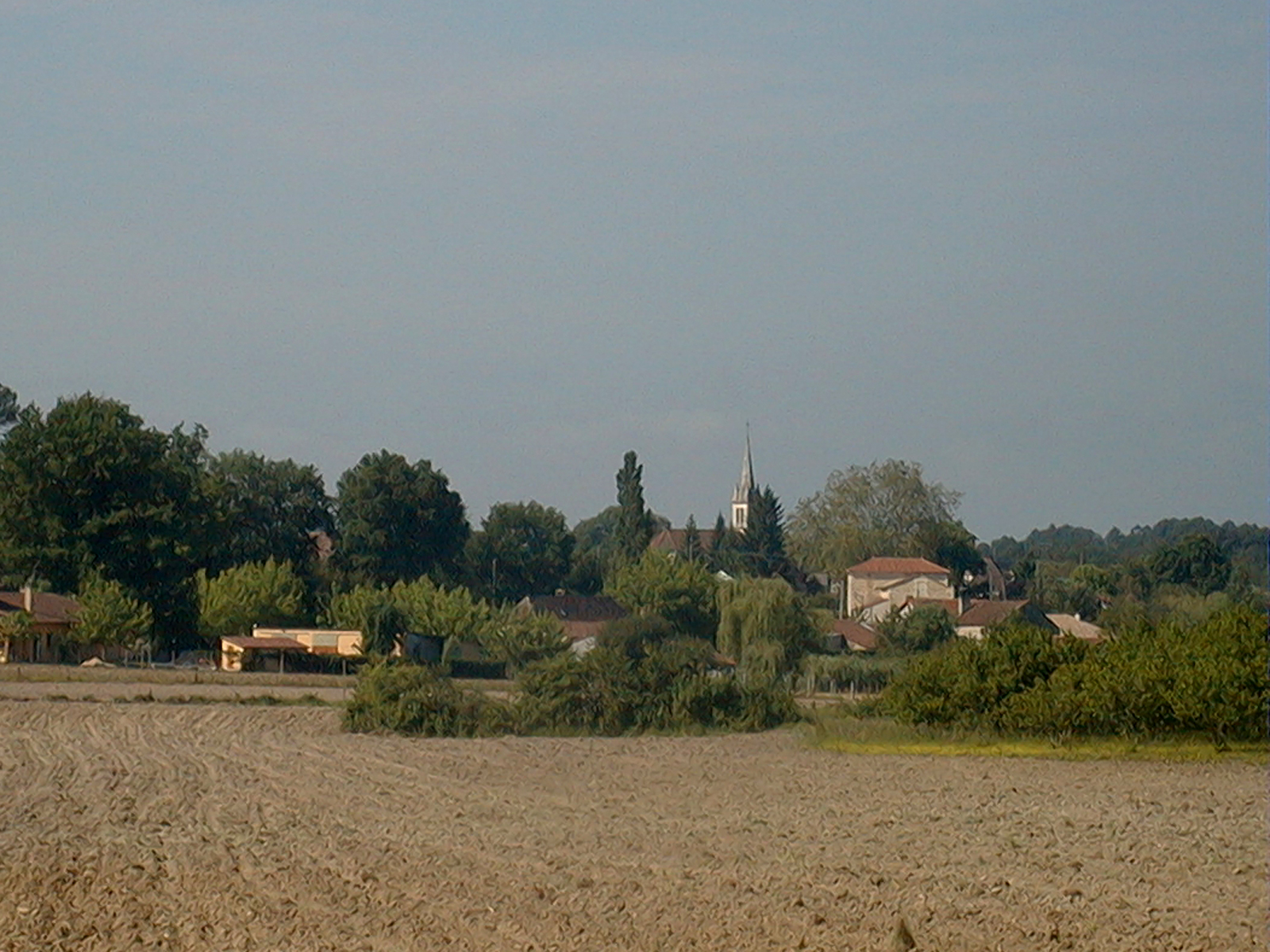 Bosset (Dordogne)